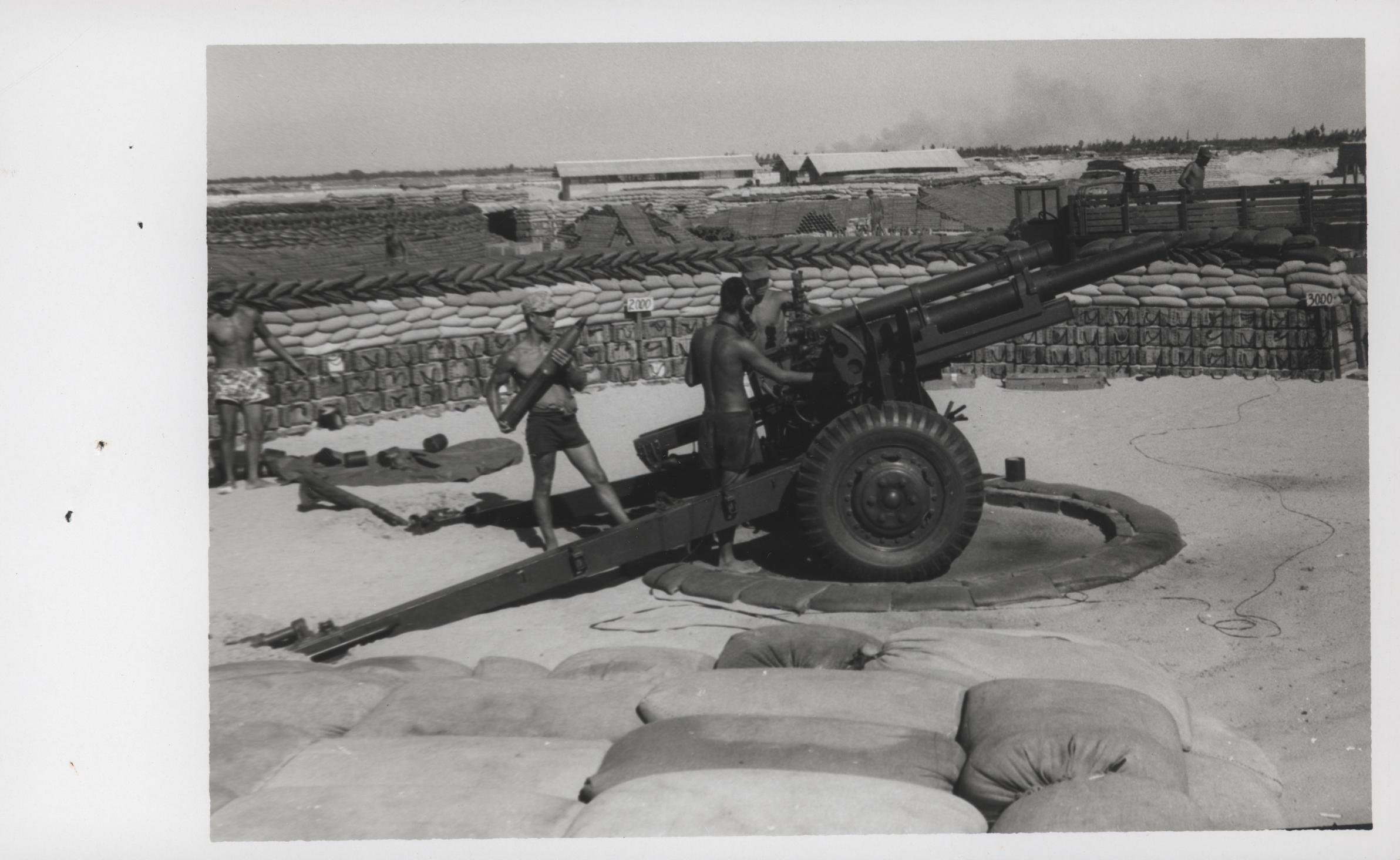 "Fire Mission: The crew of a 105mm howitzer prepares to fire at the Korean Brigade Headquarters near Hoi An, south of Da Nang (official USMC photo by Gunnery Sergeant Tom Bartlett)." From the Jonathan Abel Collection (COLL/3611), Marine Corps Archives & Special Collections. OFFICIAL USMC PHOTOGRAPH